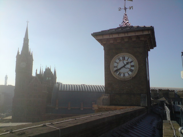 Kings Cross Station Clock Tower The clock tower at Kings Cross station with St Pancras station beyond and the old 'Post Office tower' just visible too. Taken on a crisp February afternoon.